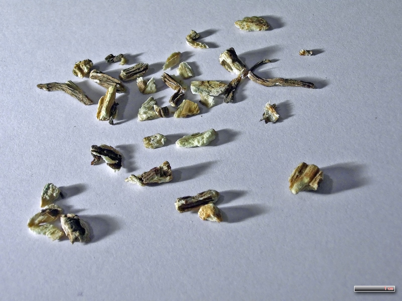 dried Lovage (Levisticum officinale) Root